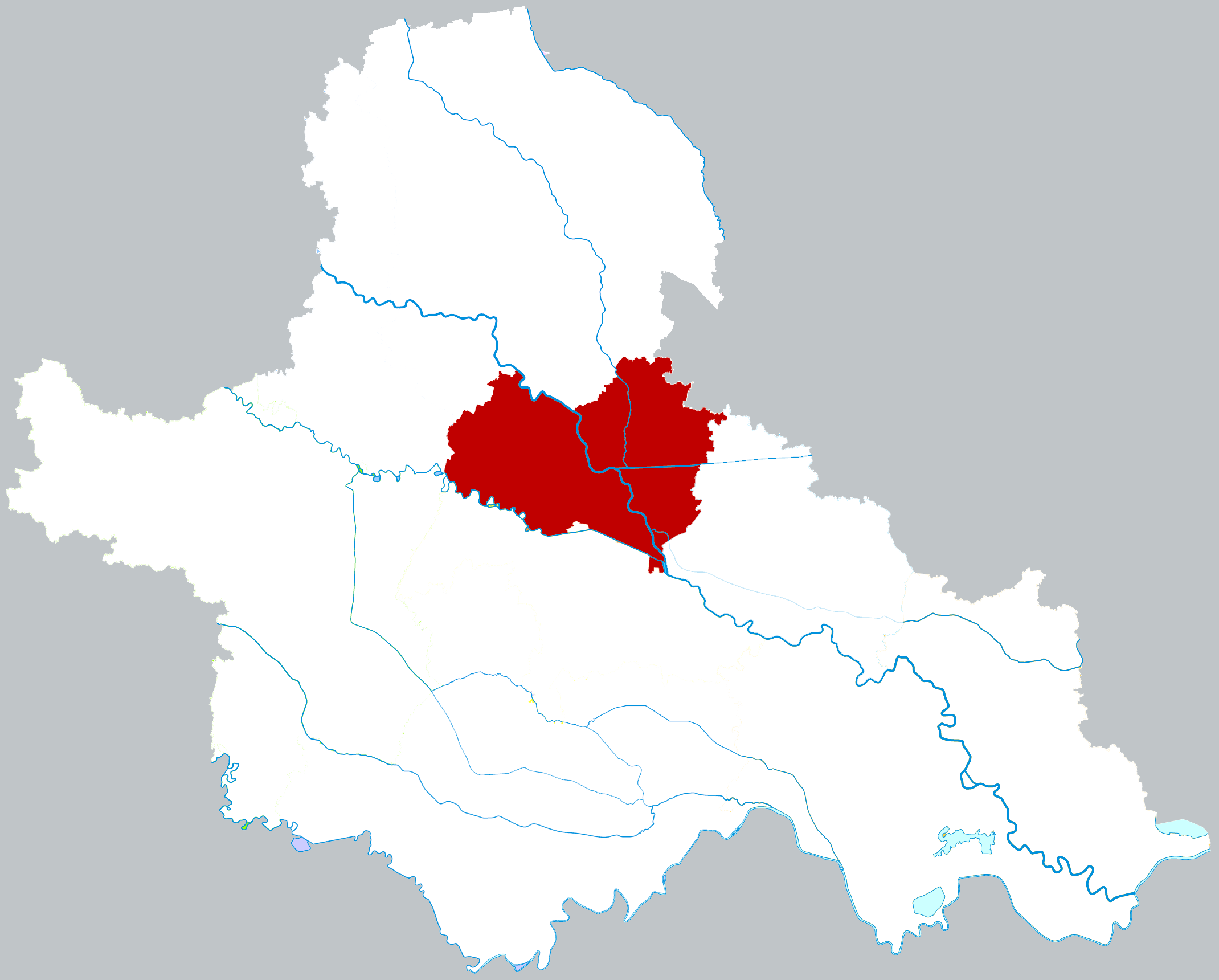 Location of Yingquan district in Fuyang city, China